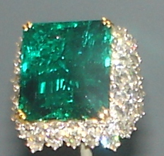 A picture I took on my senior trip